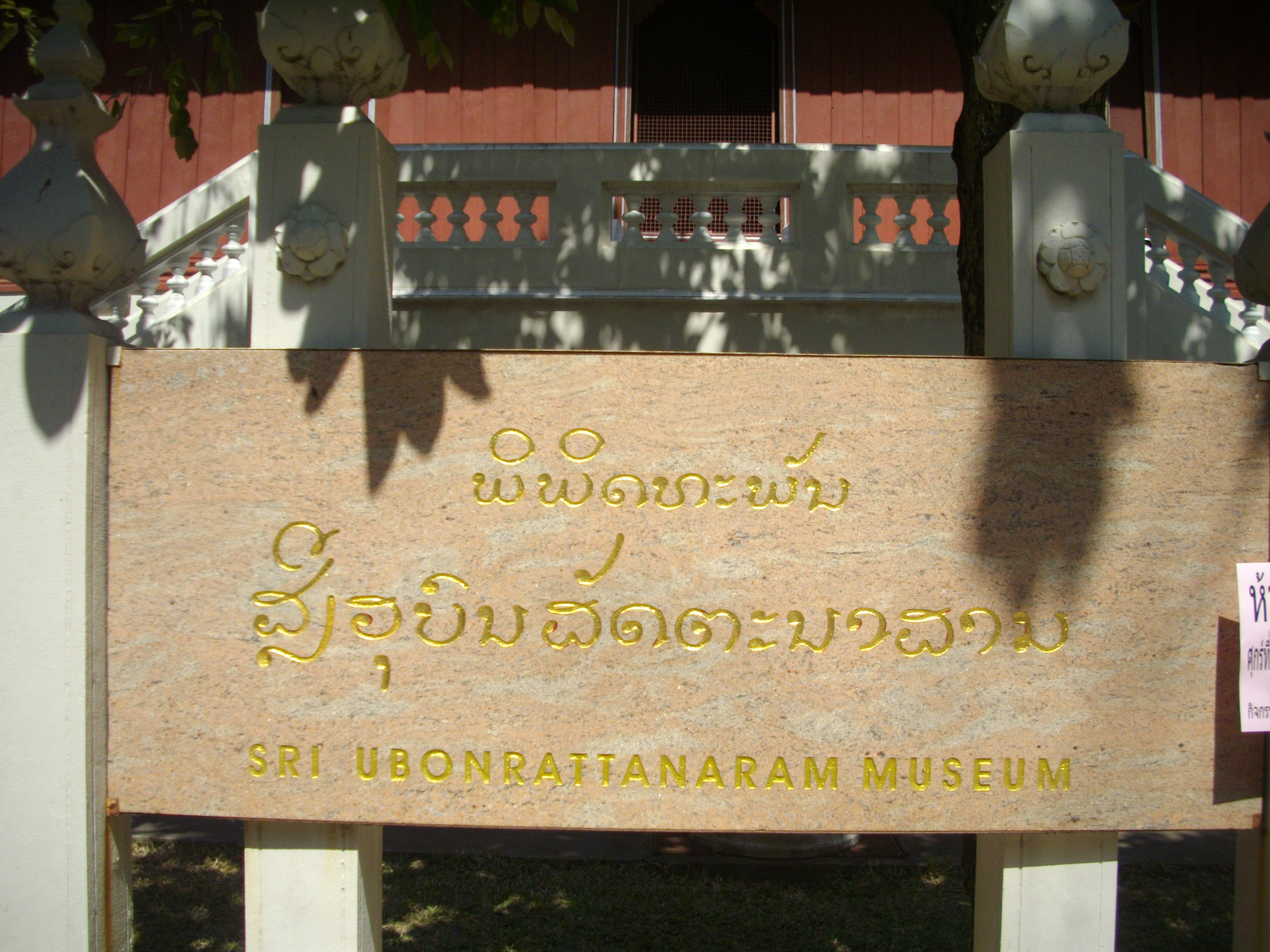 A sign for Sri Ubon Rattanaram Museum, in Wat Sri Ubon Rattanaram, Ubon Ratchathani province, Northeastern of Thailand. The name of this museum was inscribed in Thai Languages with Tai Noi script (ancient Lao script) and English language.